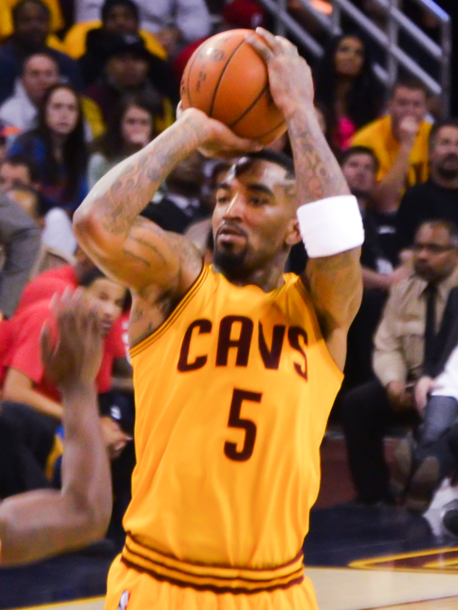 JR Smith playing for Cavs